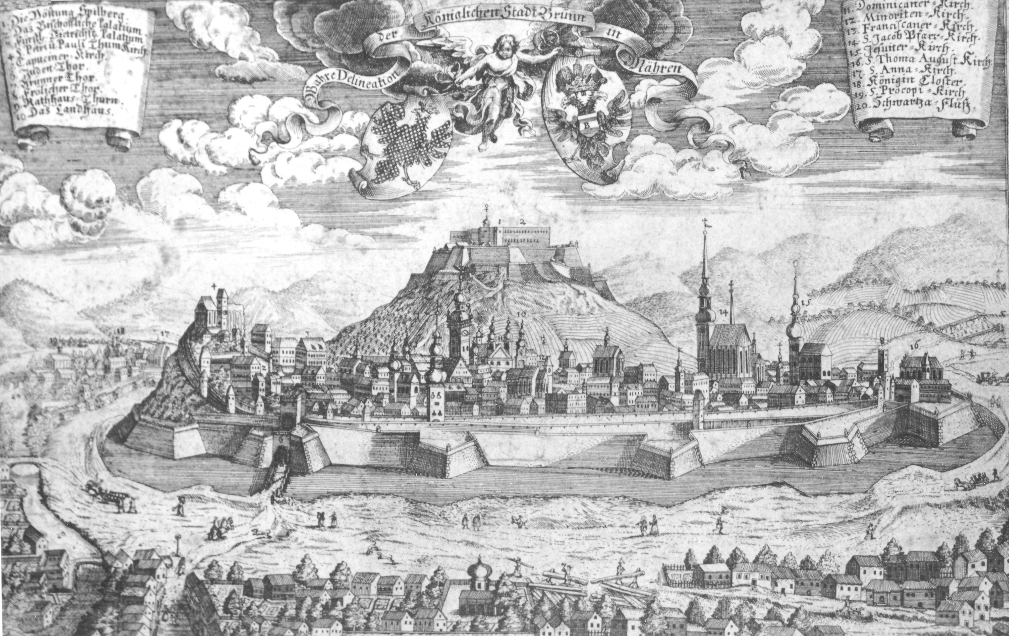 View of Brno in the year 1700.